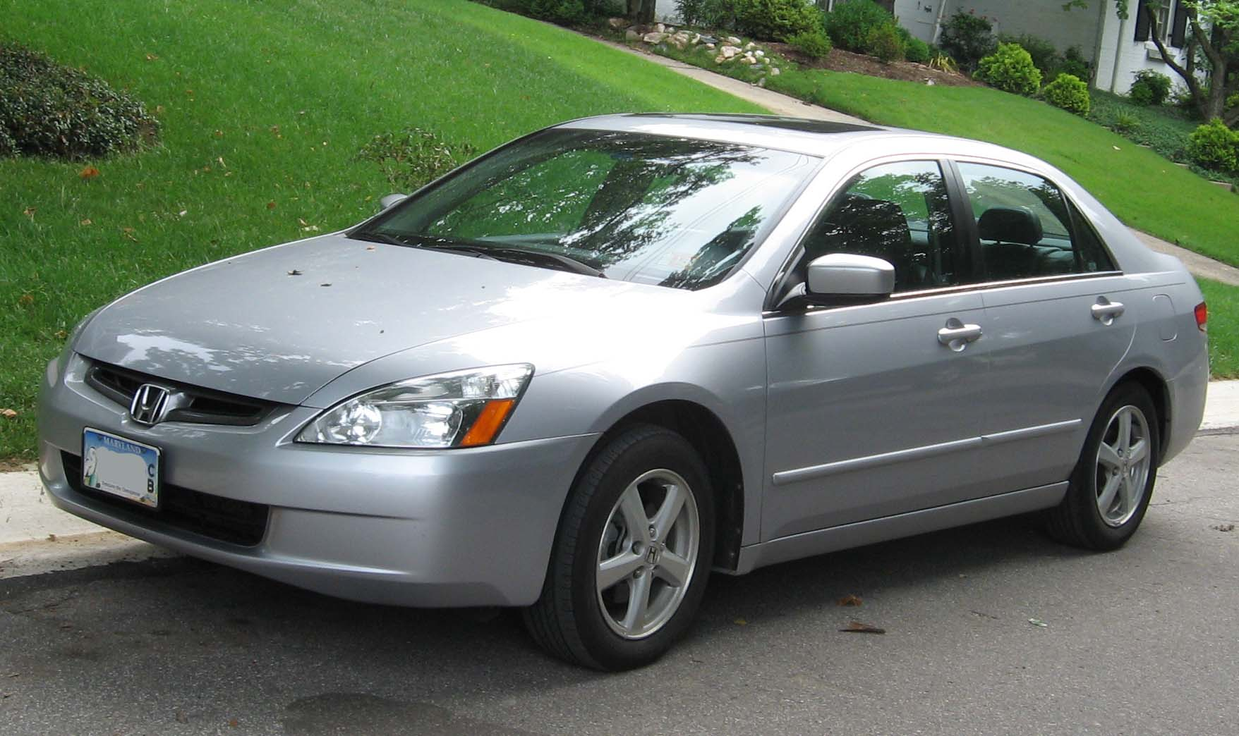 2003-2004 Honda Accord photographed in USA.